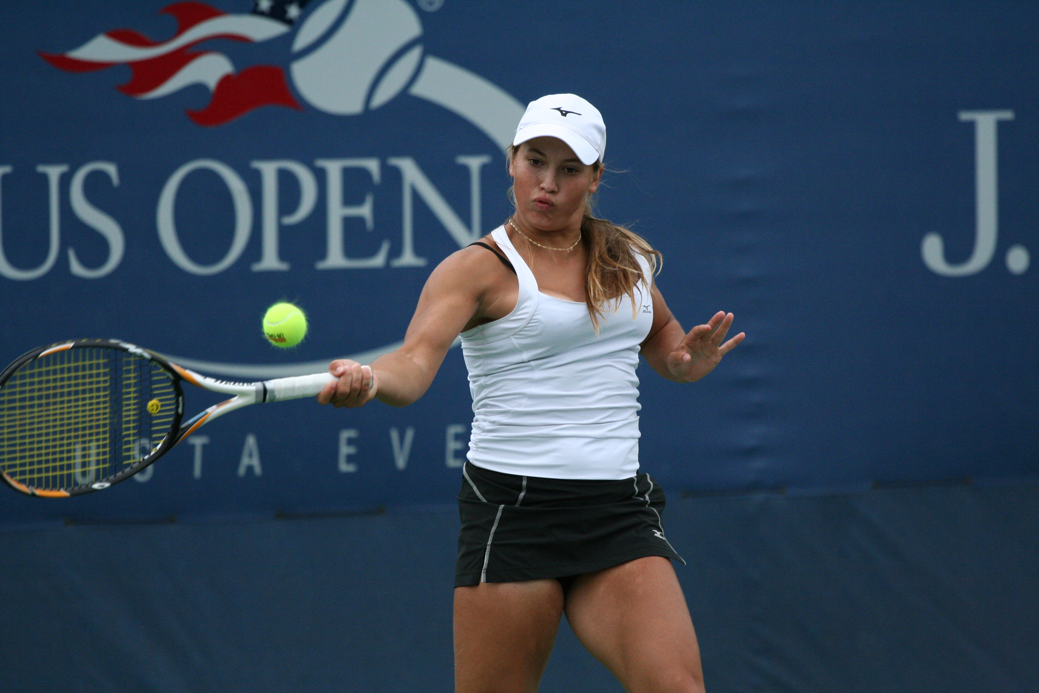 U.S. Open Juniors, Sept. 9, 2010